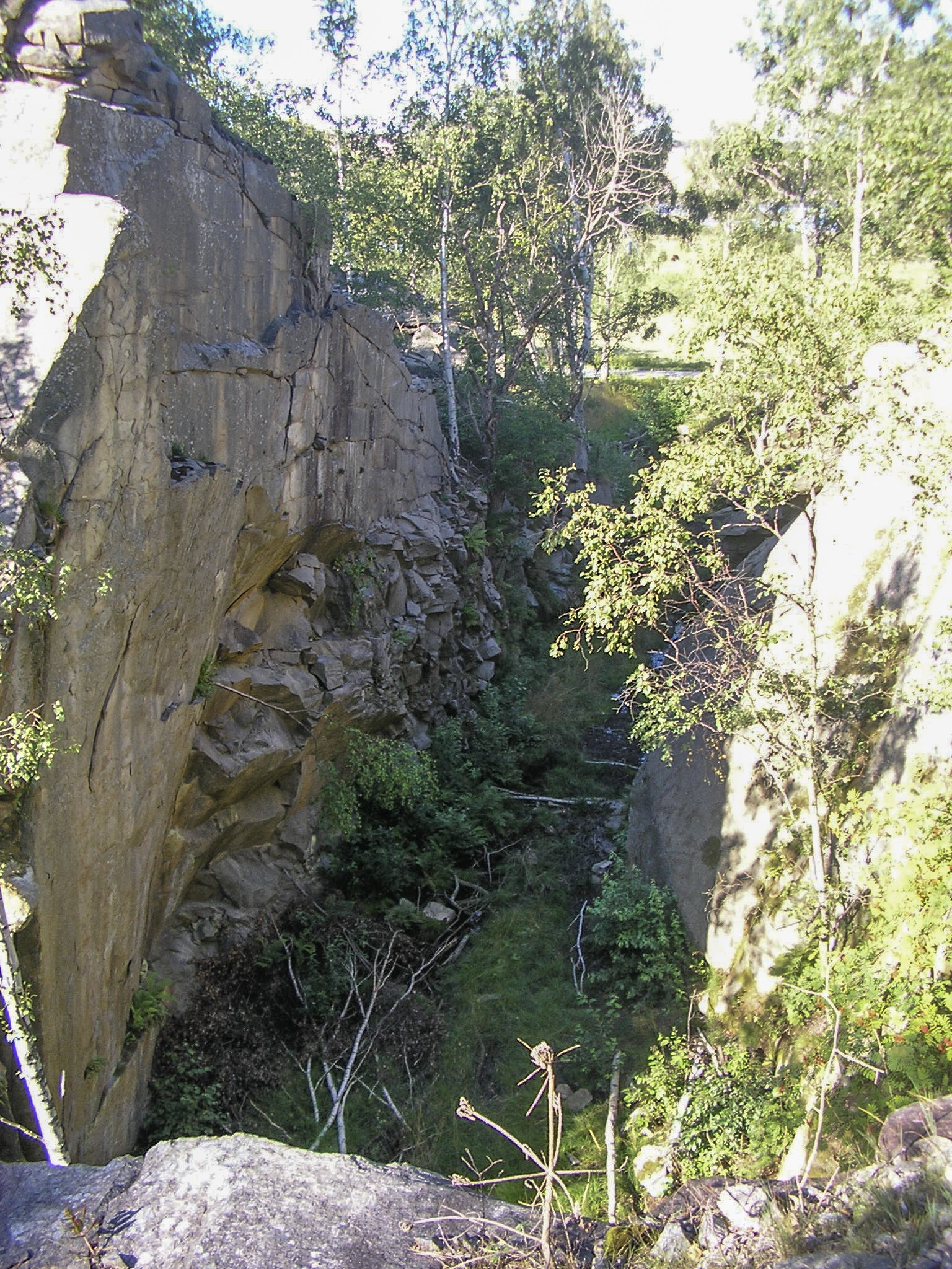 Entrance to abandoned granite quarry in Ed, Härnäset, Lysekil Municipality, Bohuslän, Sweden.